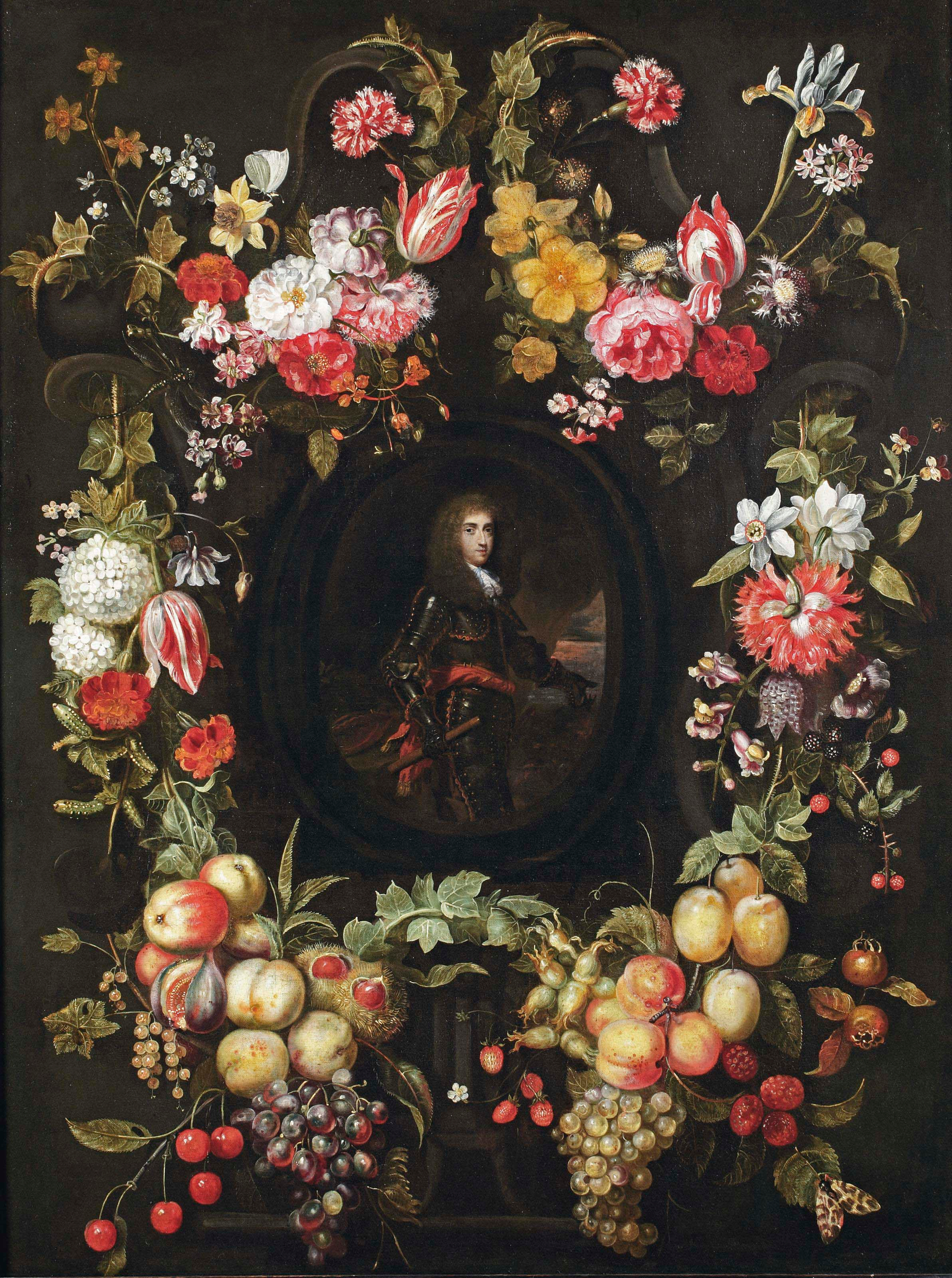 Portrait of an officer, three-quarter-length, in armour, holding a commander's baton, a coastal cavalry battle in the background, in a stone cartouche surrounded by garlands of tulips, roses, carnations, purslane and other flowers, plums, grapes, chestnuts, hazelnuts and other fruits and nuts, with a butterfly and dragonfly oil on canvas 104.4 x 78.8 cm.